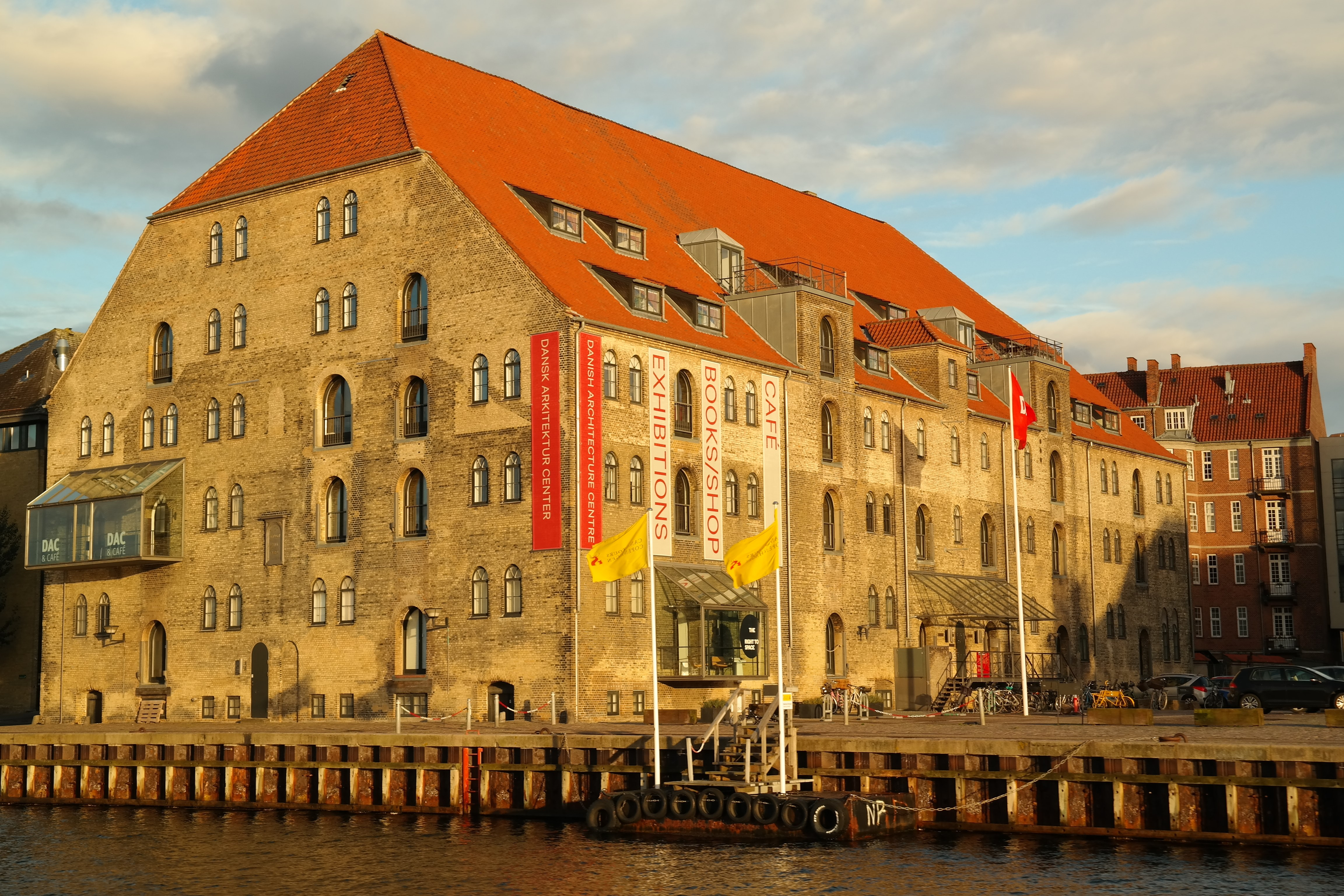 Gammel Dok Parkhus (Old Dock Warehouse), built in the 1880s and expanded vertically about 1920, is located at Strandgade 27B in the Christianshavn area of Copenhagen. It currently houses the Danish Architecture Centre (Dansk Arkitektur Center) and the National Workshops for Art (Statens Værksteder for Kunst). The original design is credited to H. C. Scharling and in the 1980s, Jens Fredslund of Erik Møllers Tegnestue A/S (Erik Møllers architects) oversaw its conversion to its current uses.